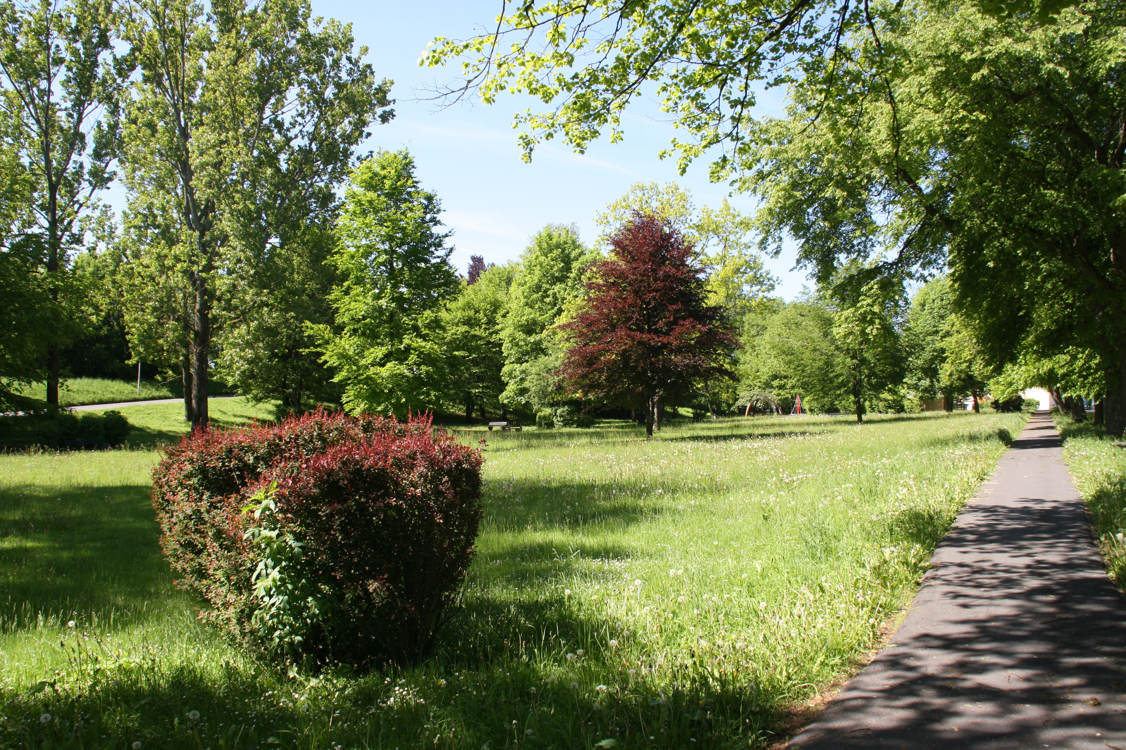 Park at the train station of Schönwald